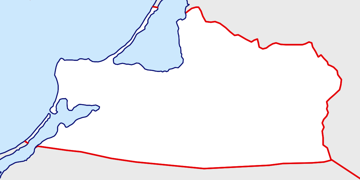 Map of Kaliningrad Oblast, Russia